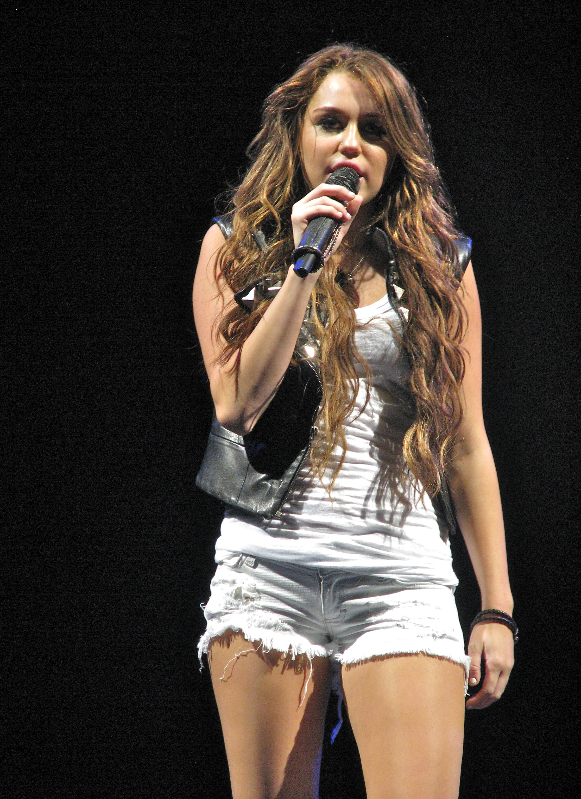 A teenager singing.